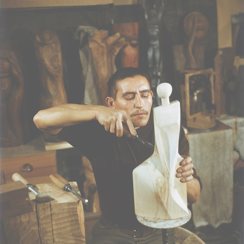 "The Moldavian sculptor Veaceslav Zaitev" (80th years).